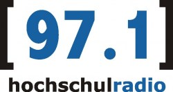 Logo hochschulradio düsseldorf